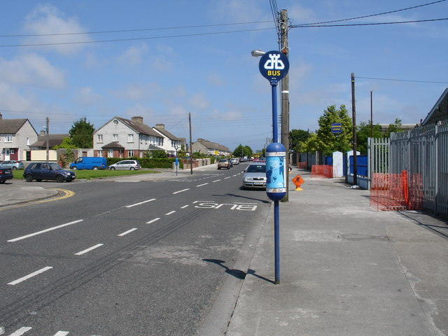 Harmonstown Road at Ribh Road